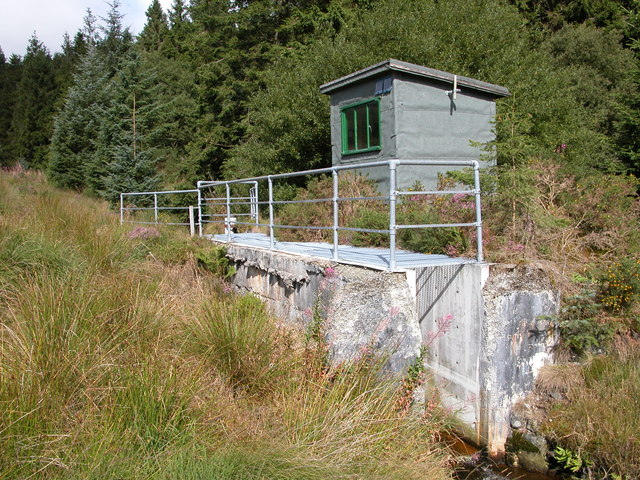 Flume, Hafren Forest. This is one of many flumes in Hafren Forest measuring the river flow near the source of the river Severn.